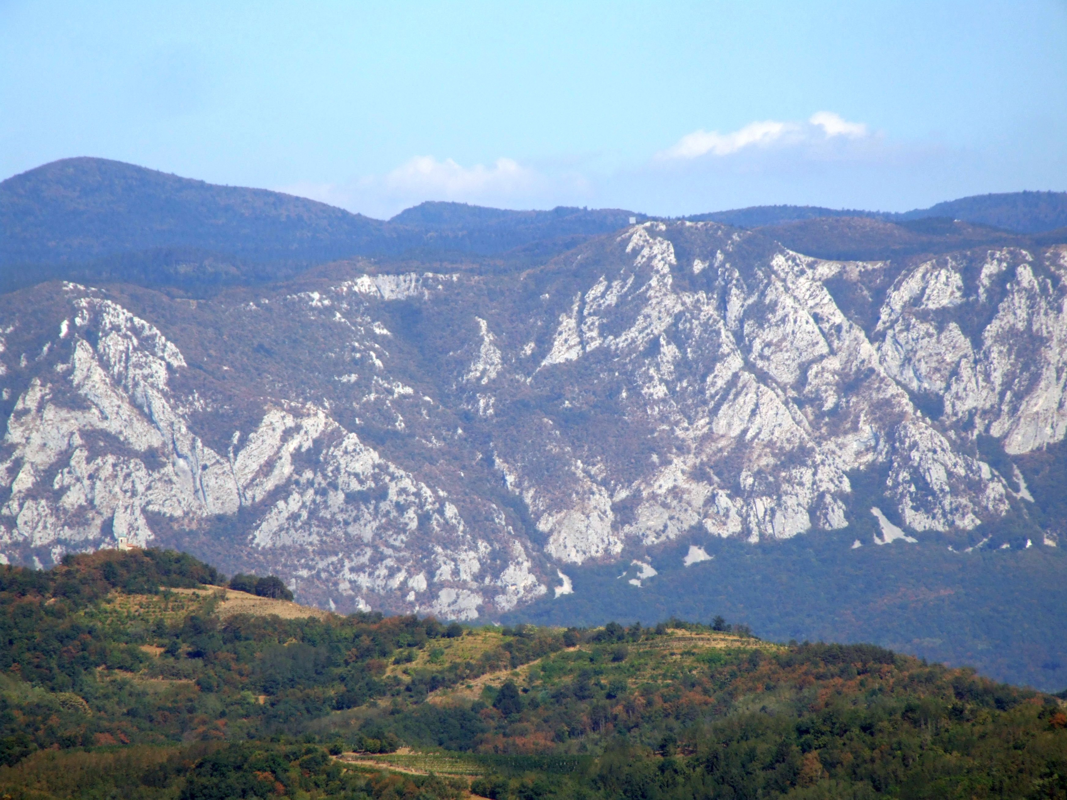 Stanjel, Slovenia There is a small village on top of the hill. It is a place like the memory of a perfect childhood - something we all carry in us but that we long since ceased to believe is real. Climb the hill - enter the dream